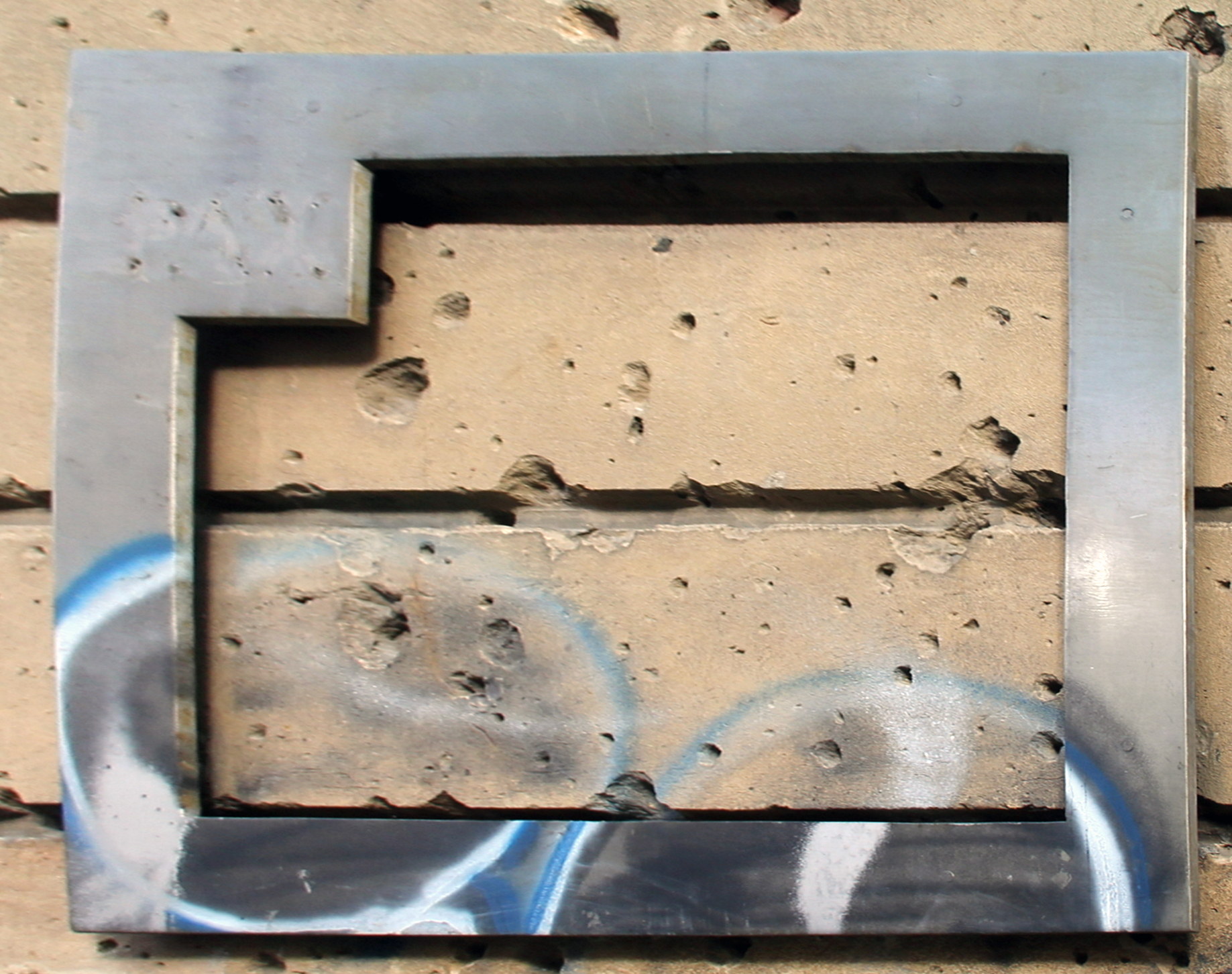 Memorial plaque, Pax-Frieden byn Jürgen Strandt, Große Hamburger Straße 29, Berlin-Mitte, Deutschland